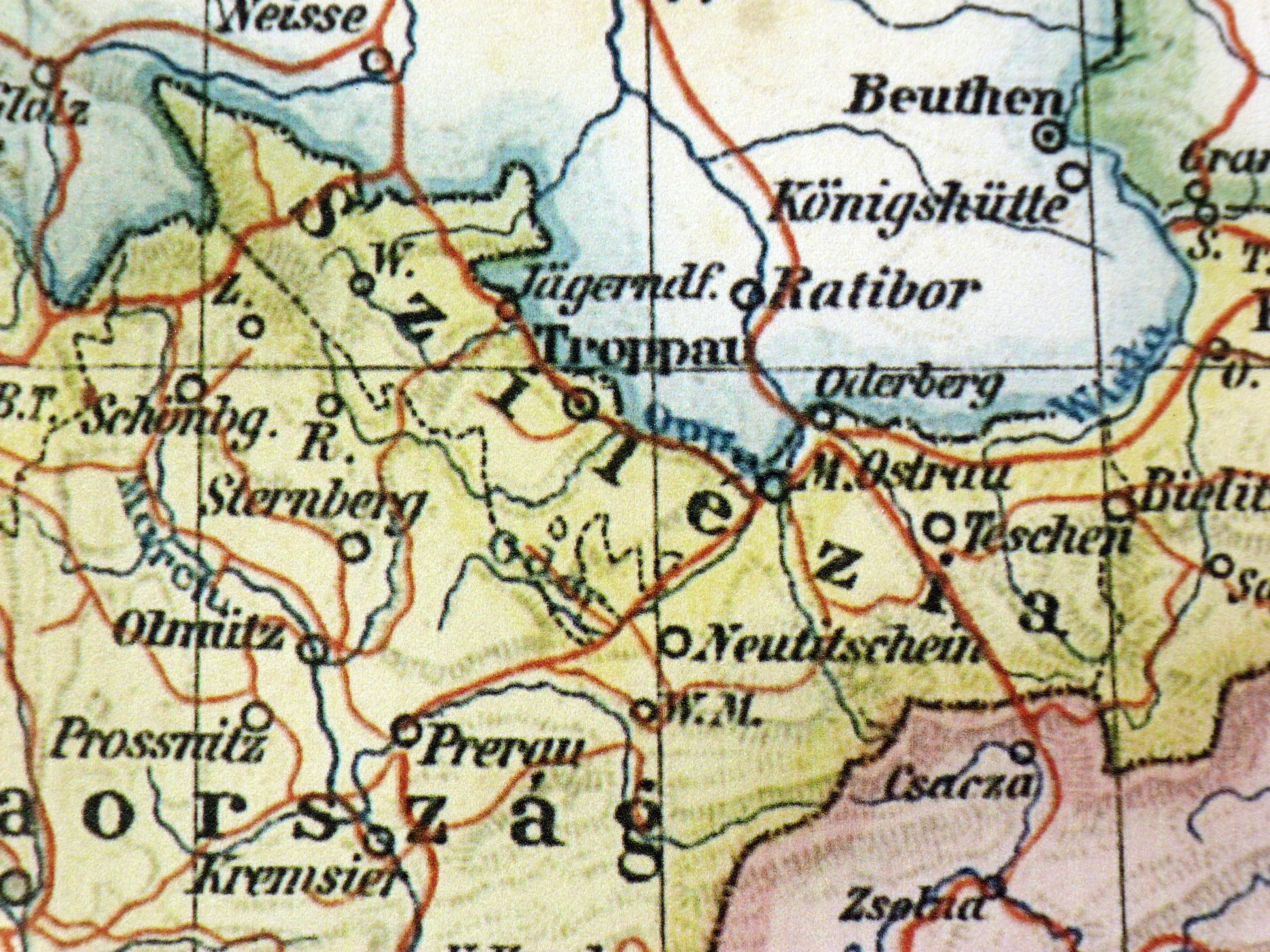 Historical map of railway lines in Silesia. This image is an excerpt of a larger map showing the Kingdom of Hungary.